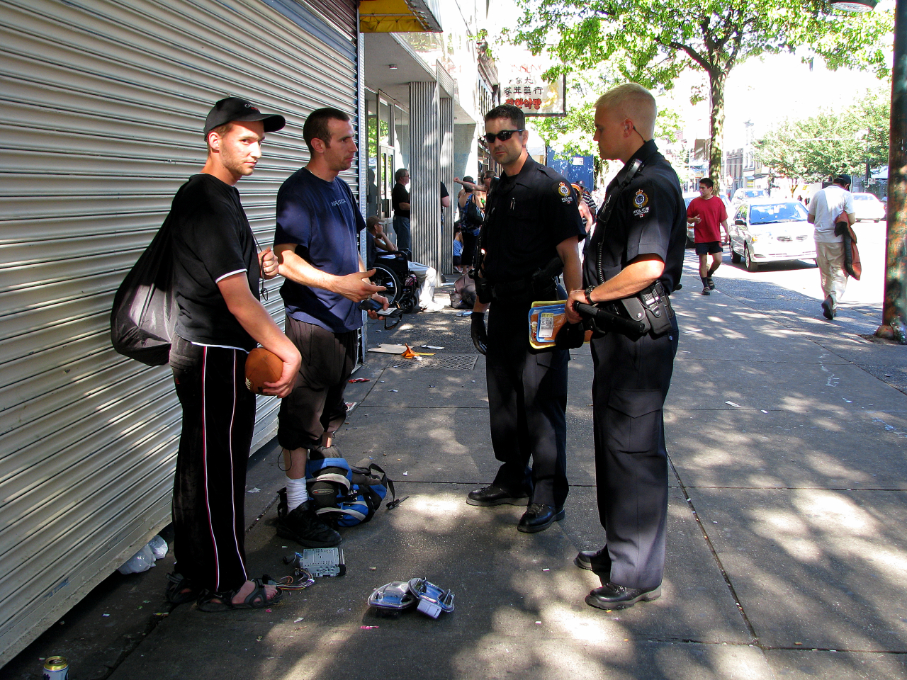 Vancouver Police officers ordering two sidewalk vendors to leave the area. One of the youths took exception to the photograph, whereupon one of the officers very clearly stated to him that it was fully permissible under Canadian law to record such images. On East Hastings, in Vancouver BC Canada.